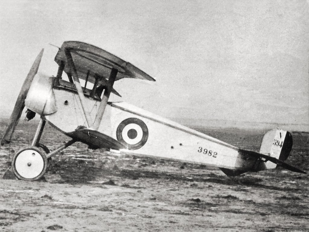 The Nieuport Ni.11 was one of the first airplanes flown by many Italian aces. Since 1915 Macchi manufactured the plane under license. The plane, due it's minimal size was nicknamed "Bebè" by the pilots.